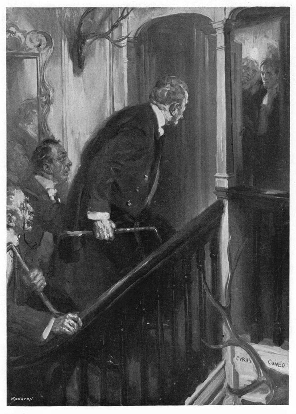 Pall Mall's illustration for E. W. Hornung's Raffles short story "The Spoils of Sacrilege" by Cyrus Cuneo. This story was first published in Pall Mall Magazine in the August 1905 issue.